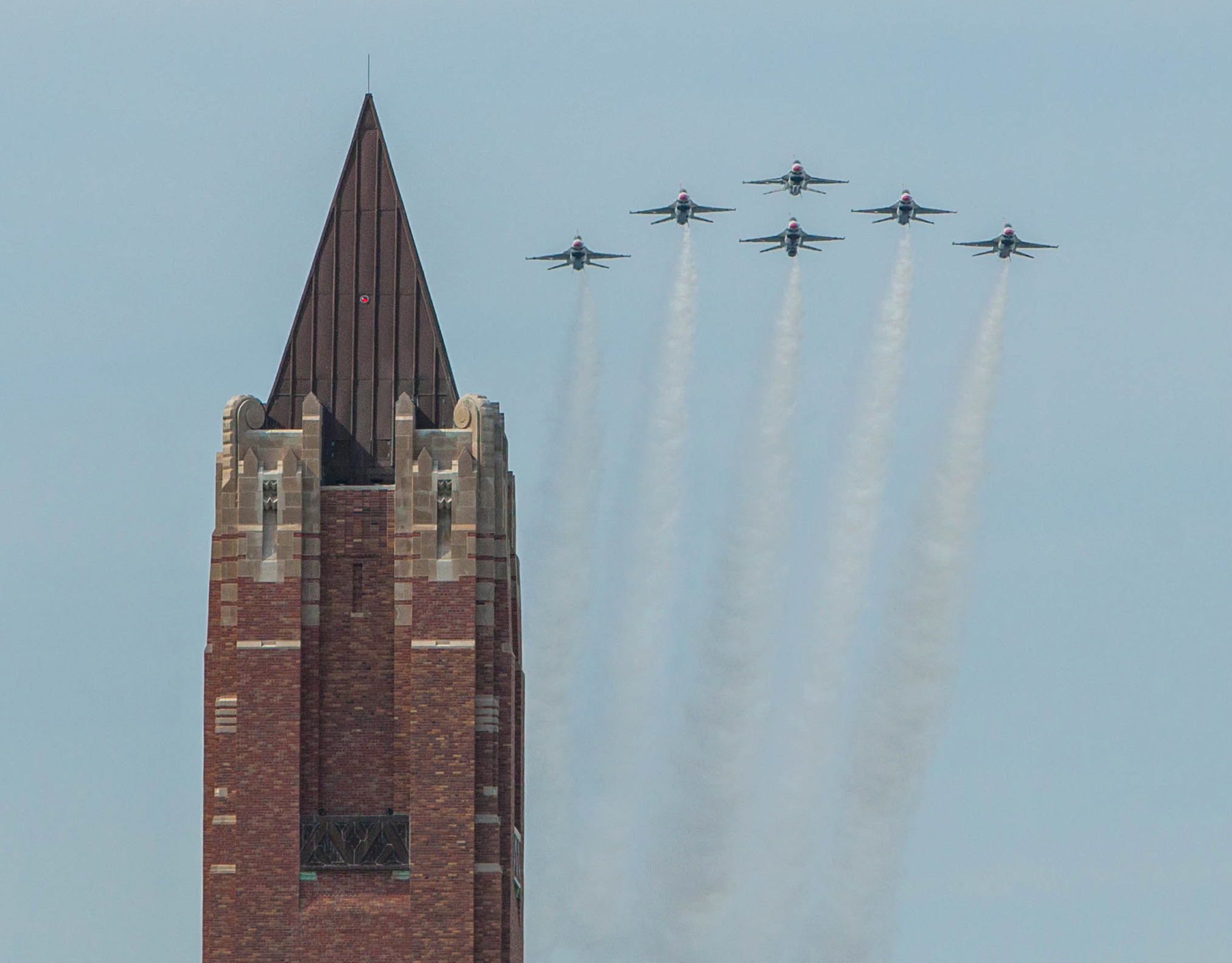 Fighter jets participating in the Bethpage Air Show pass near the Jones Island Beach State Park's watertower, Memorial Day weekend, 2015.